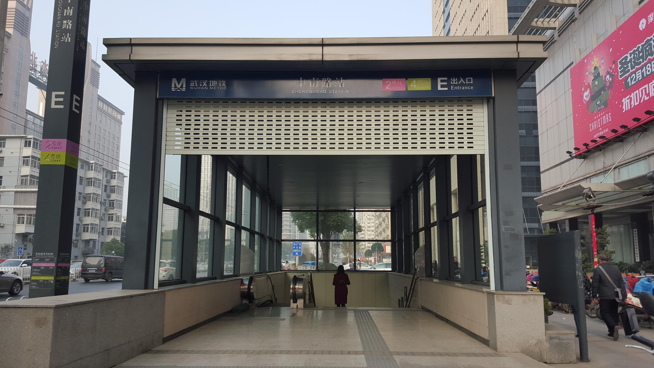 Entrance E of Zhongnan Road Station, Wuhan Metro